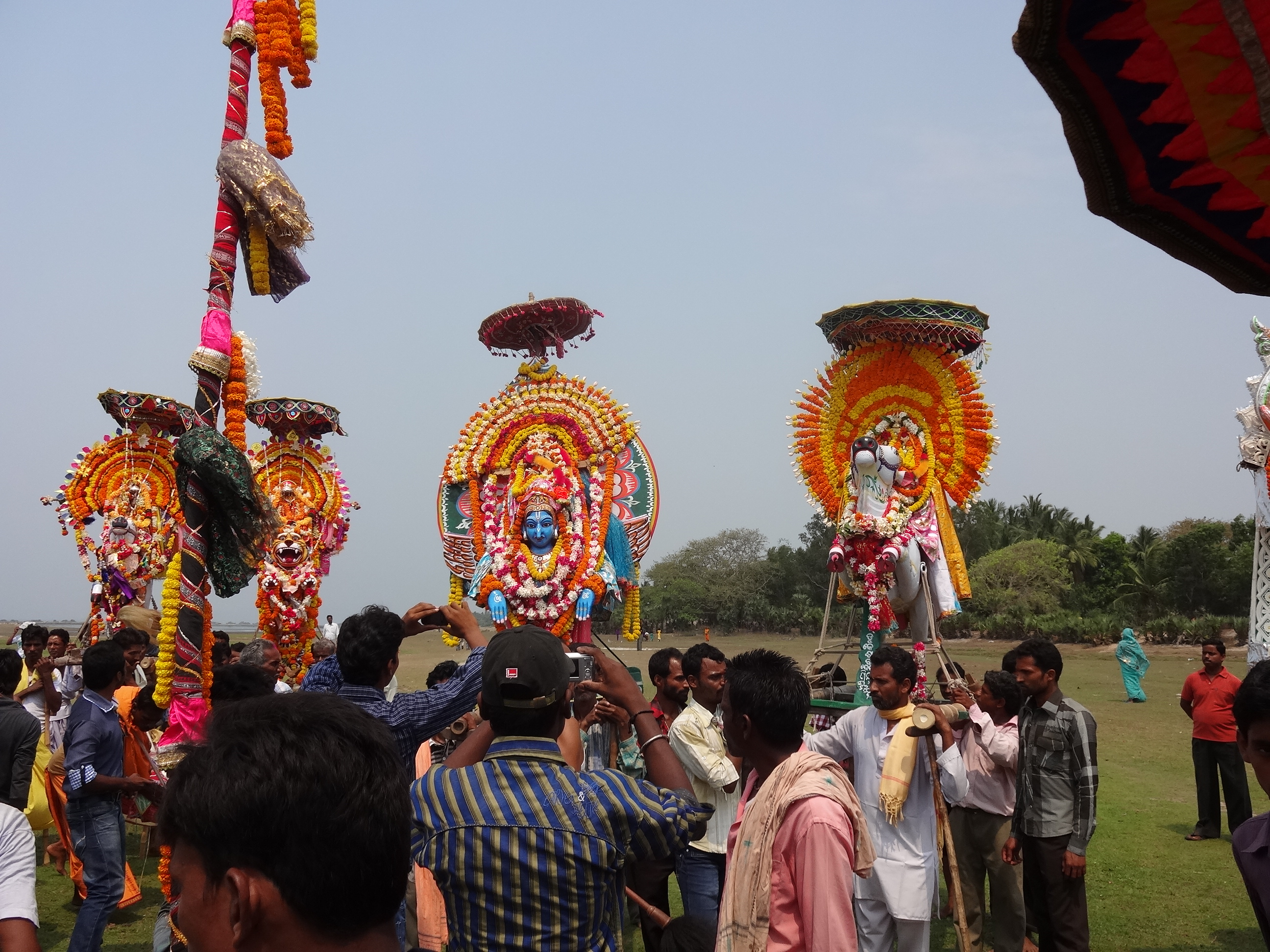 Panchudola